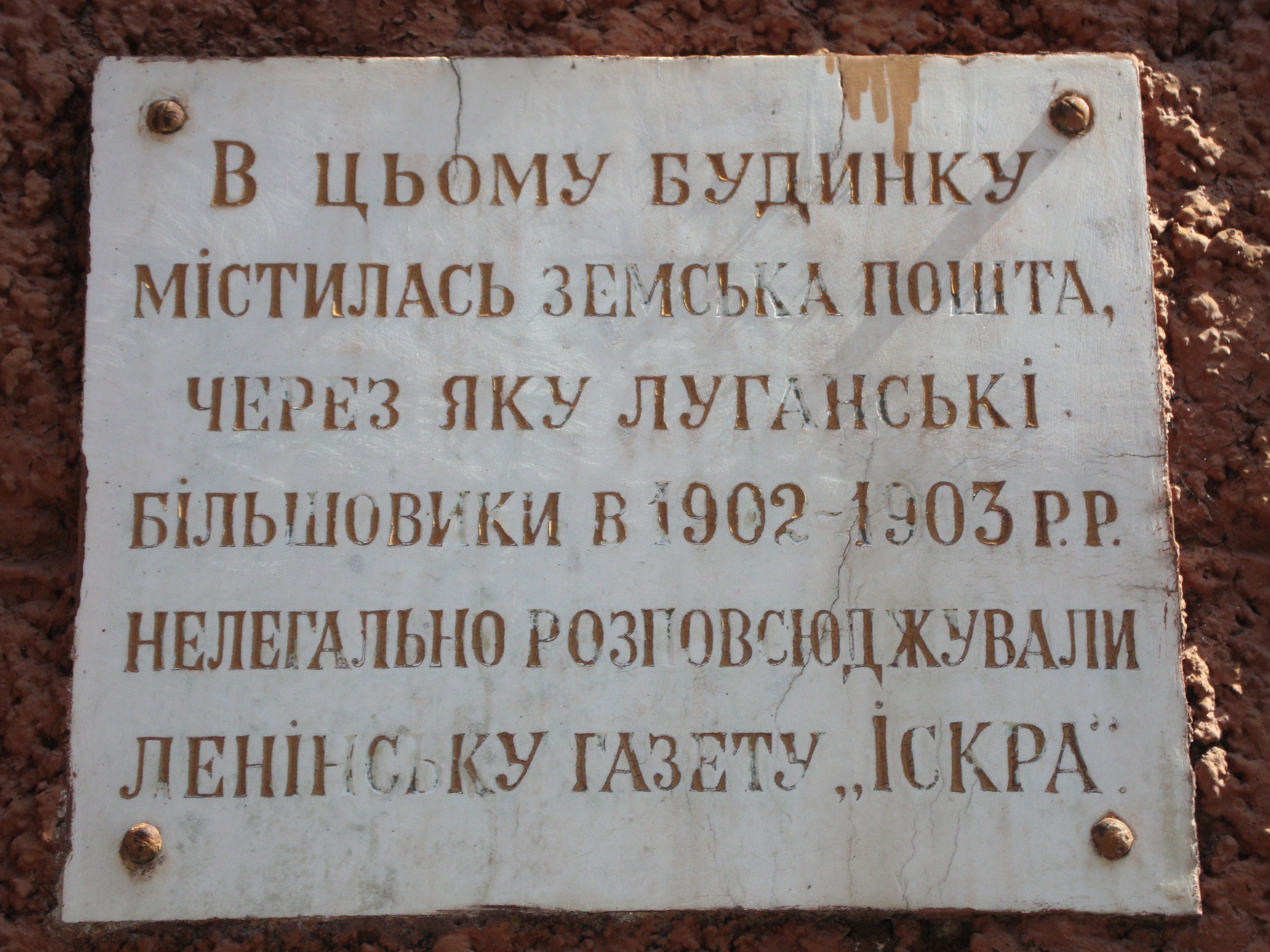 Commemorative plaque on school #2 in Luhansk